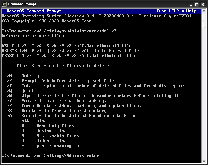 del command on ReactOS-0.4.13